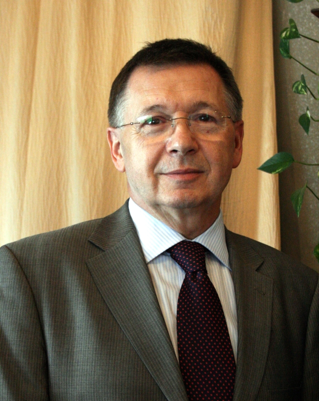 Zvonko Maković at the ceremony and presentation of new members for the Croatian Academy of Sciences and Arts in Zagreb